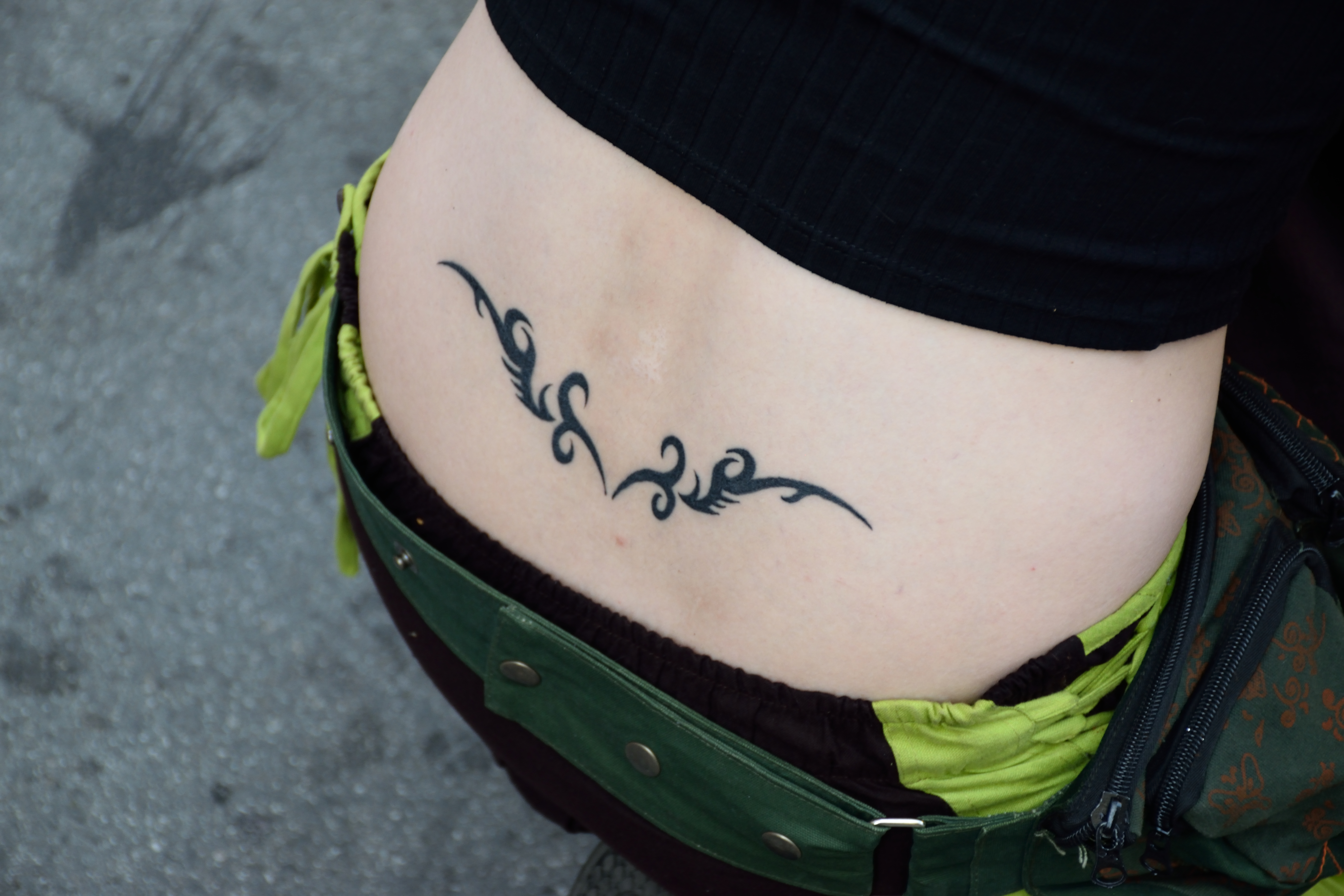 Photo taken during meta:Wikipedia for Peace/Europride Vienna 2019Location: AustriaEvent type: europrideDate or year: 2019